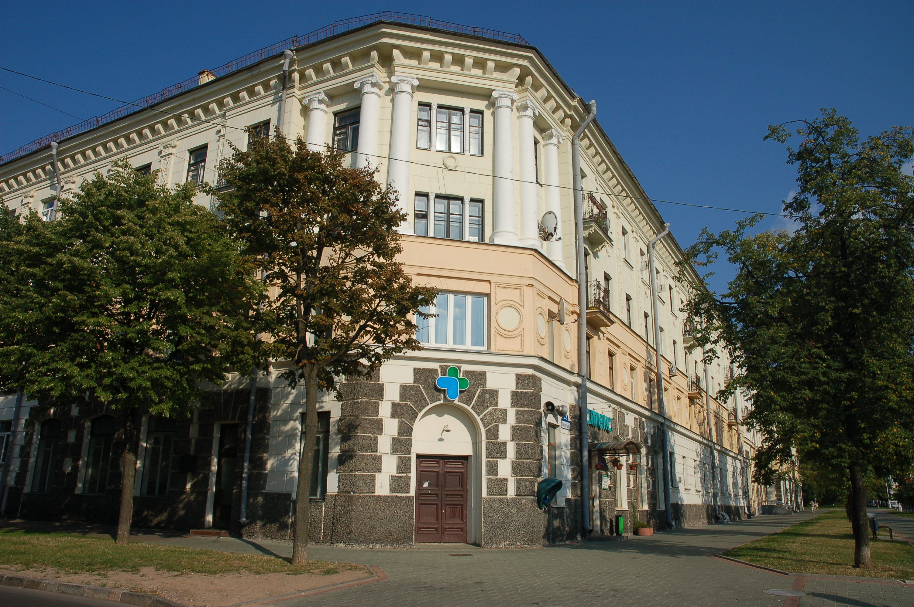 Minsk, 23 Zakharava Street